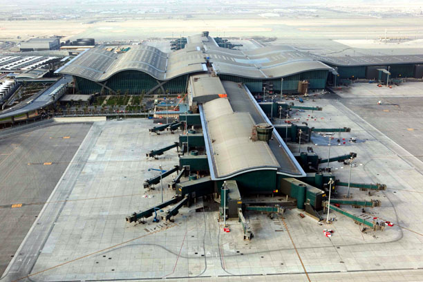 Hamad International Airport in the State of Qatar